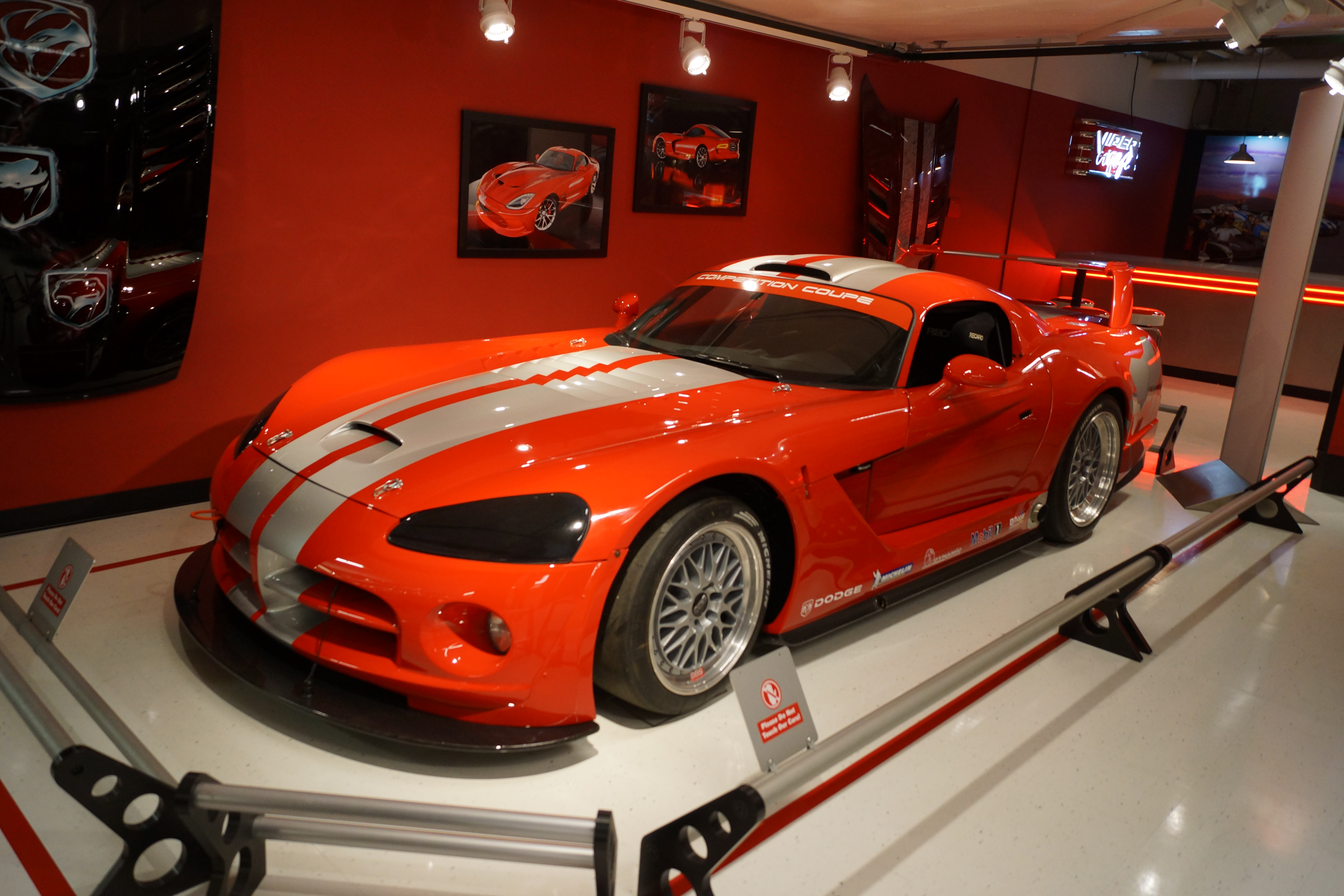 Click here for more car pictures at my Flickr site. Or here for my Car Crazy Tumblr site. Back on November 4th, Hemming's Blog posted an article about the closing of the Walter P. Chrysler Museum . I had missed a couple other opportunities with the WPC Club and others to get into the museum, after it had closed to the public. I did not want to regret missing this last chance to see all of the vehicles before being spread out to other facilities. I trekked from Western Minnesota to Eastern Michigan during Winter Storm Decima. I missed the worst parts of the storm, but still had to endure the aftermath winds, sub zero temperatures and a lake effect snow storm. The trip was difficult, but well worth it. I got to see several Chrysler Corporation concept and show cars that I had only seen pictures of before. There were several clever interactive displays demonstrating various innovations over the years. Since it was the last chance, I duplicated several shots using different camera settings to see what produced better results. I wish I had invested in a strobe light diffuser for all of those indoor pictures. I have not had much experience or success in the past with indoor car images.